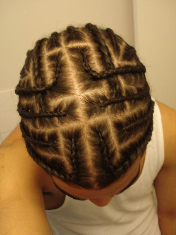 one of my braid that i had